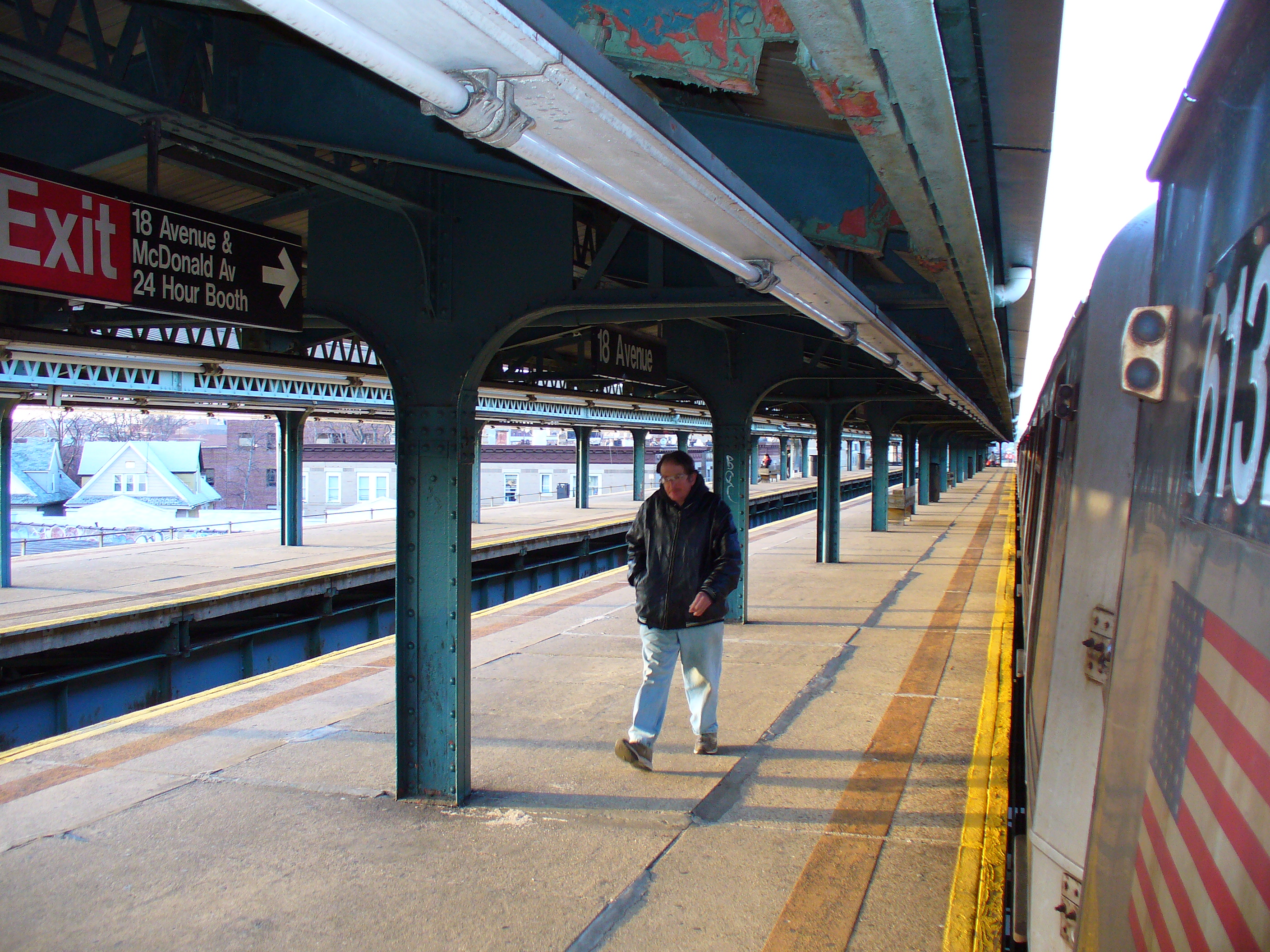 18th Ave F Line NYC Subway Station by David Shankbone